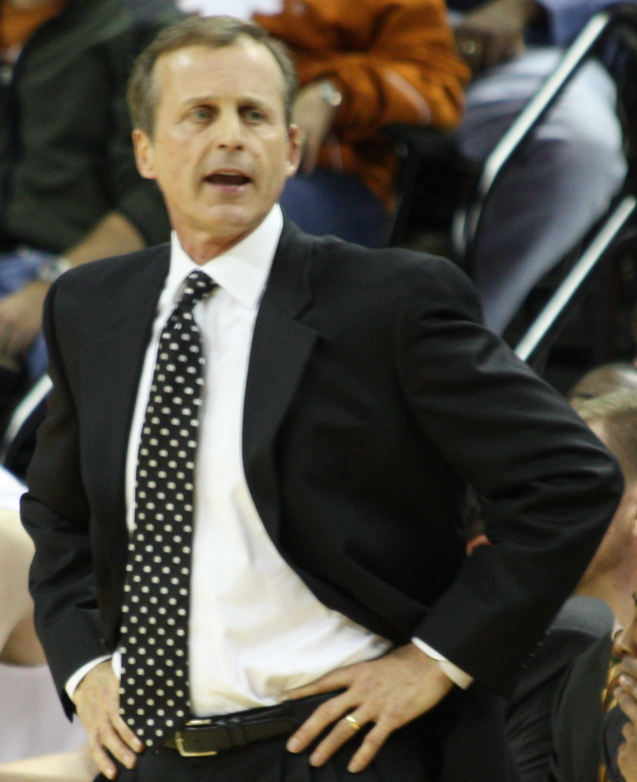 University of Texas men's basketball coach Rick Barnes coaches on Feb. 4, 2009 vs. Missouri.